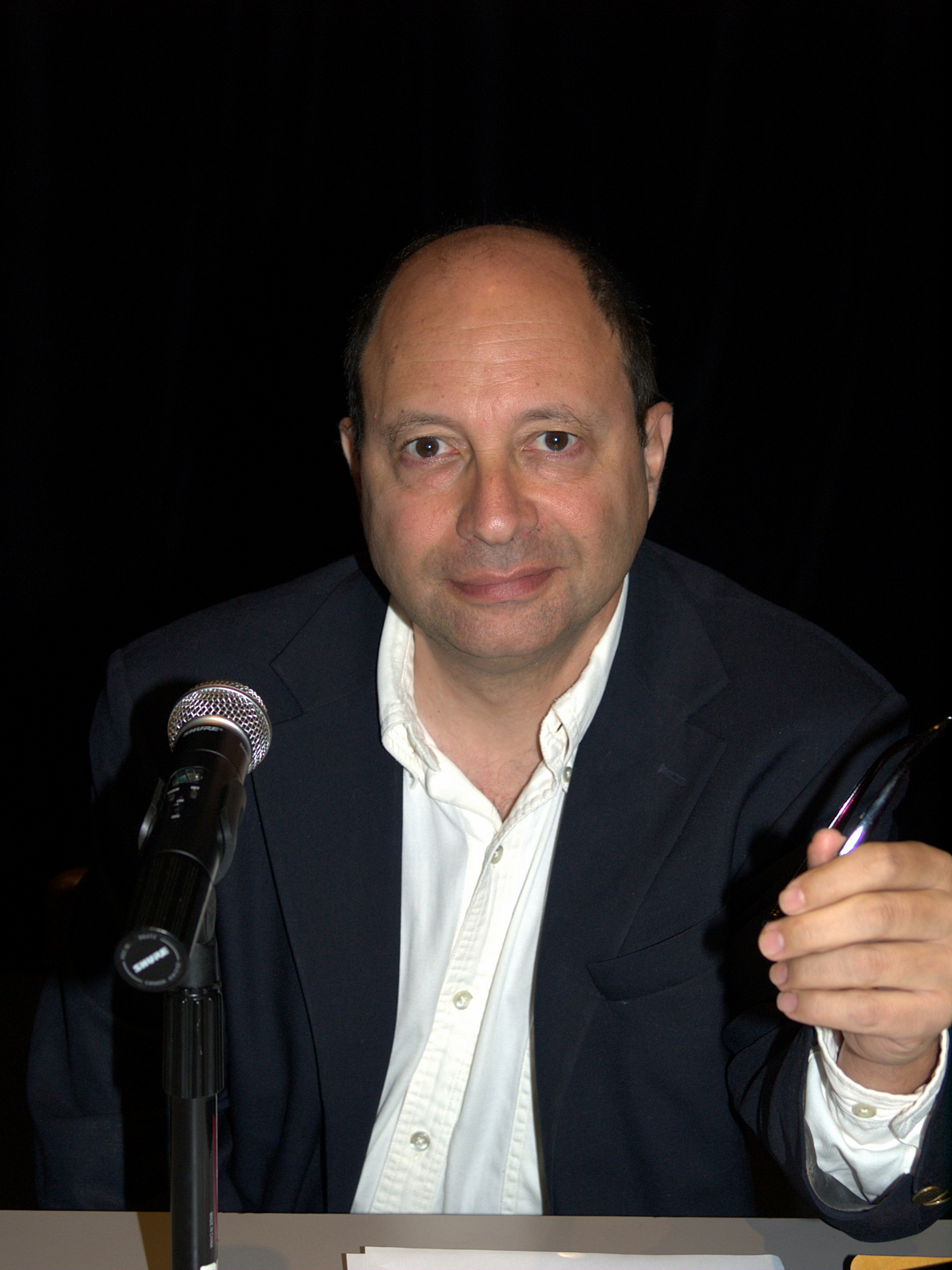 Harold Augenbrauml at the 2010 Brooklyn Book Festival.